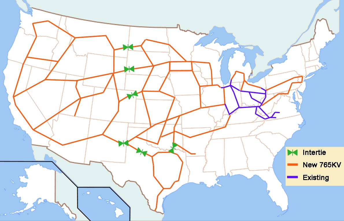 American Wind Energy Association proposed super grid for the US using 765KV AC transmission. Orange are new lines. Blue are existings 765KV AC lines. Green arrows are back to back HVDC interties between the Western, Eastern, and Texas Interconnections. This project is being championed by American Electric Power.